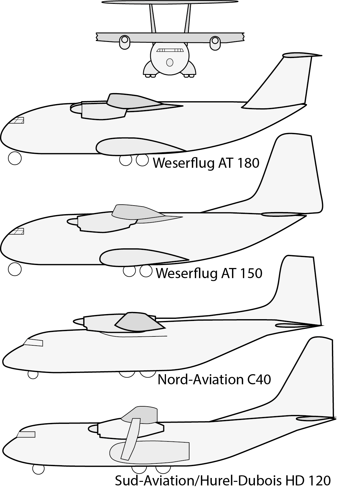 Conceptual drawings of studies leading to Transall C-160 Based on Flug Revue International 6/67 (Reload as .png-file because .svg shows rendering Errors)